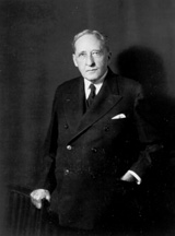 Photo of William Henry King, a American lawyer, politician, and jurist from Salt Lake City, Utah. He represented Utah in the United States Senate from 1917 until 1941.